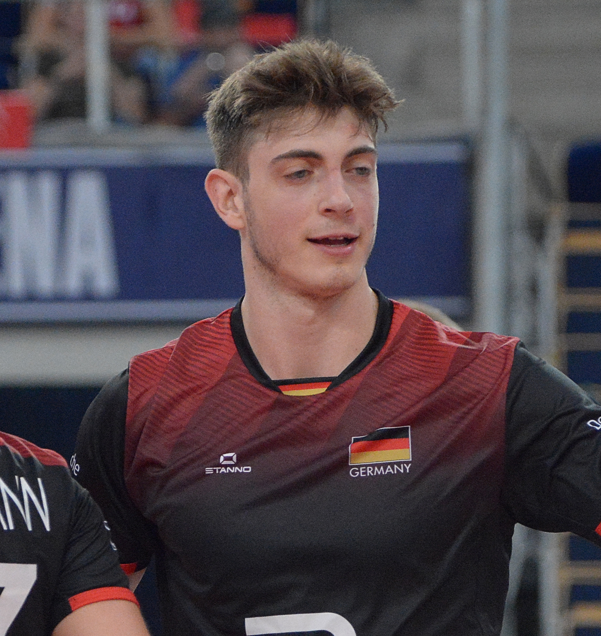 Volleyball Nations League: France - Germany